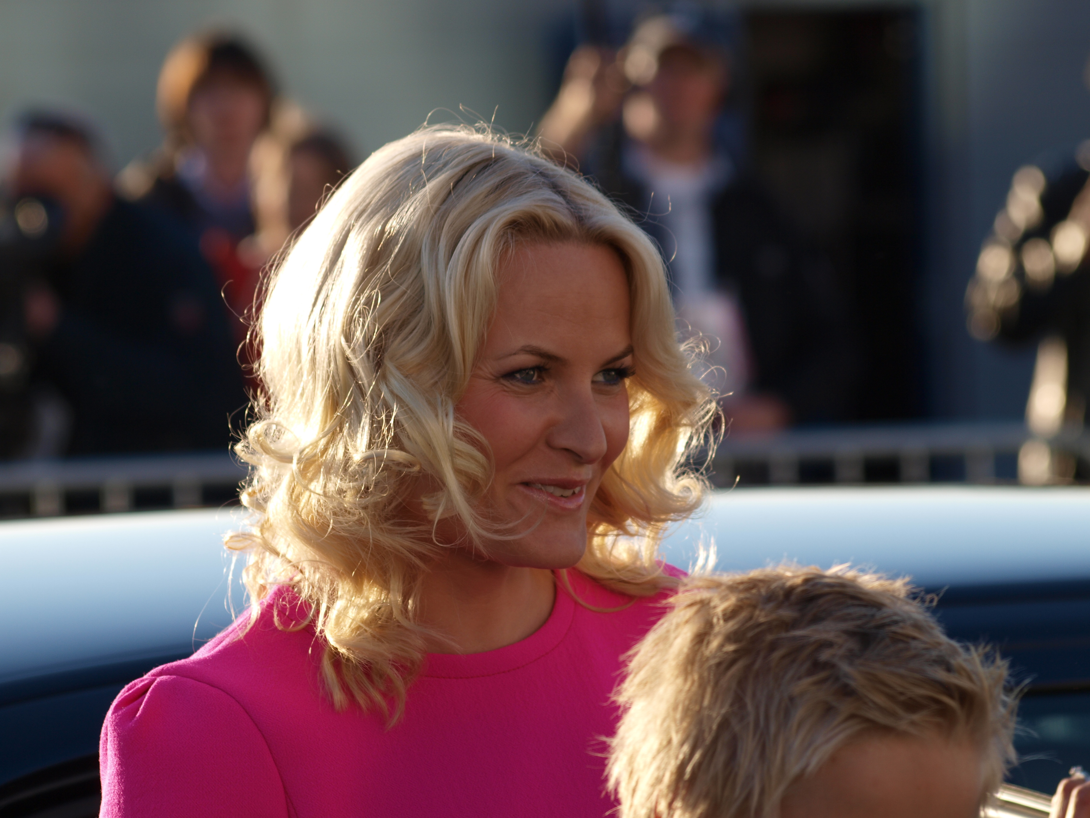 Her Royal Highness the Crown Princess of Norway during Eurovision 2010 in Oslo.